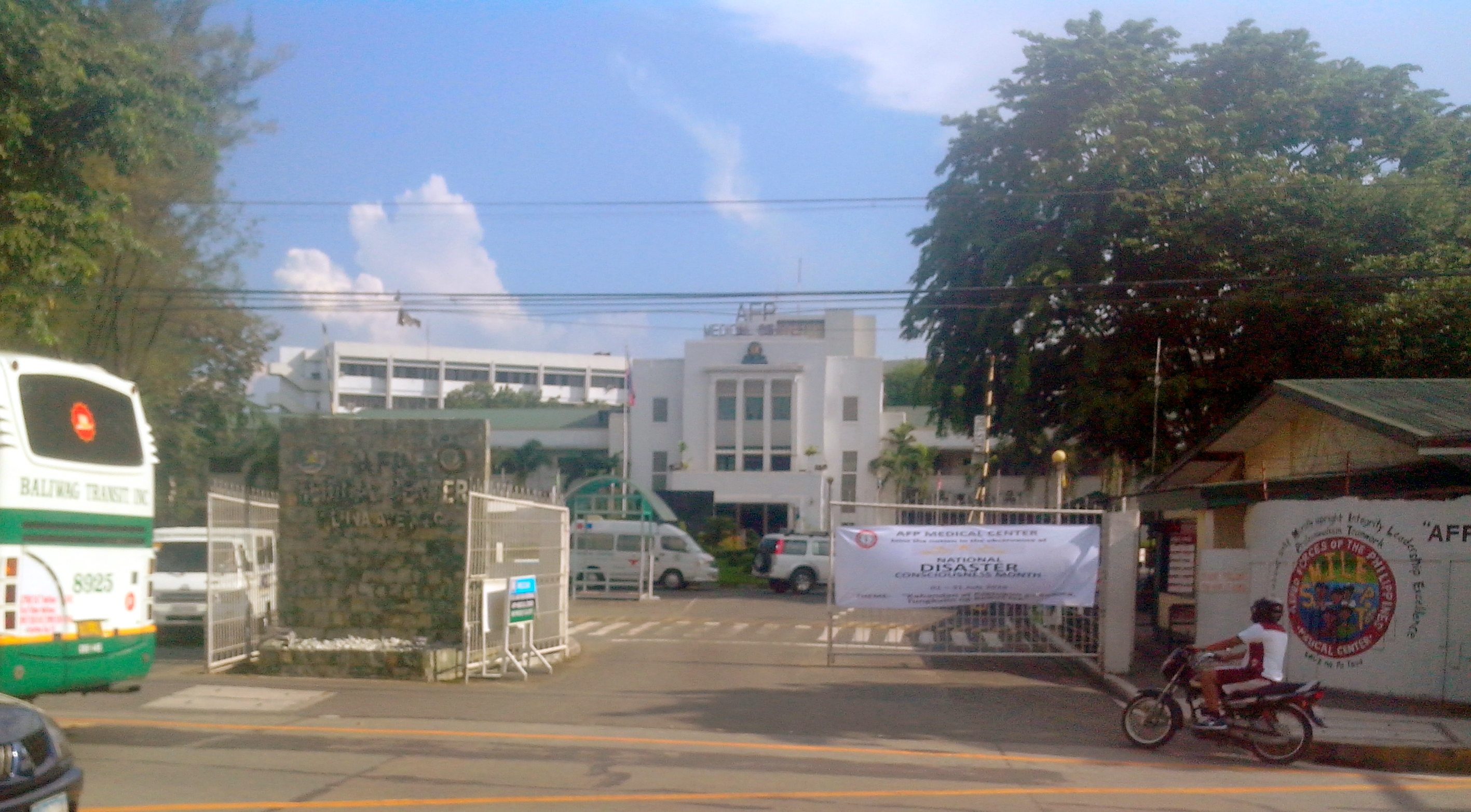 The front gate of the Armed Forces of the Philippines Medical Center, also colloquially referred to as V. Luna Hospital.